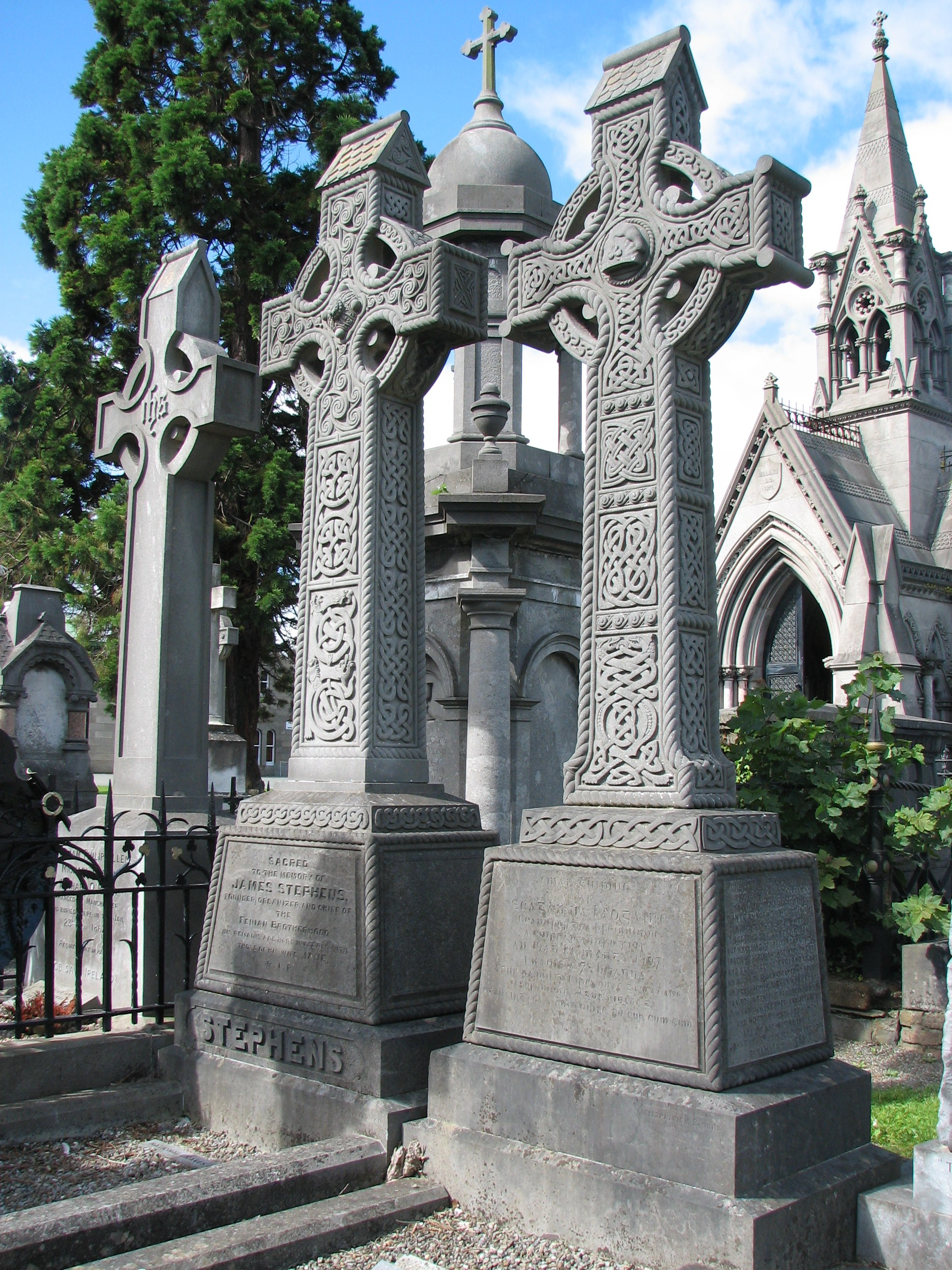 Stephens and O'Leary buried side by side. A Panel on the Celtic cross reads: "A day, an hour of virtuous liberty is worth a whole eternity in bondage."